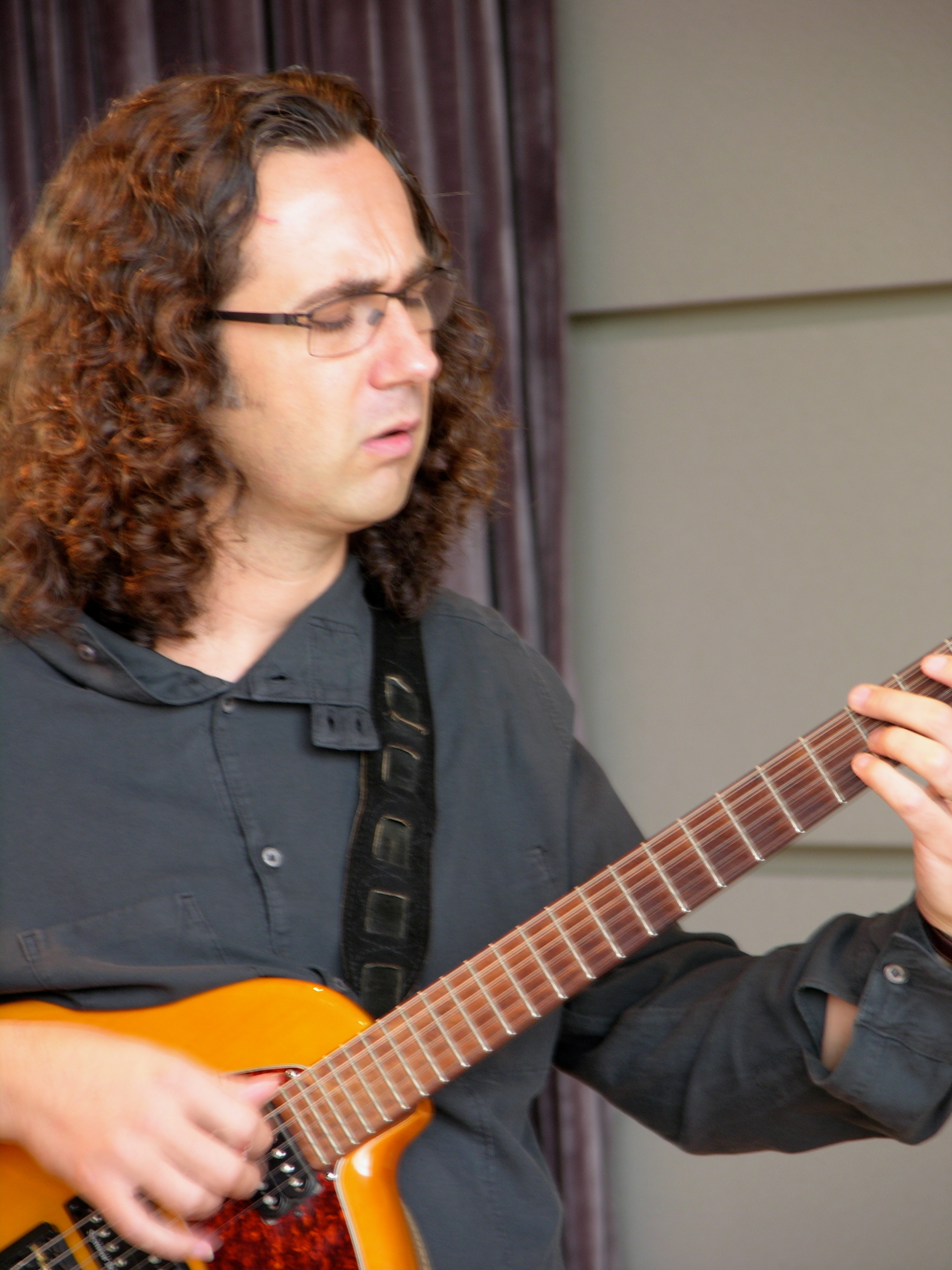 performing at Bam Fisher Building